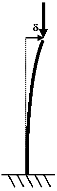 Schematic buckling of a columm with one fixed end and one free end